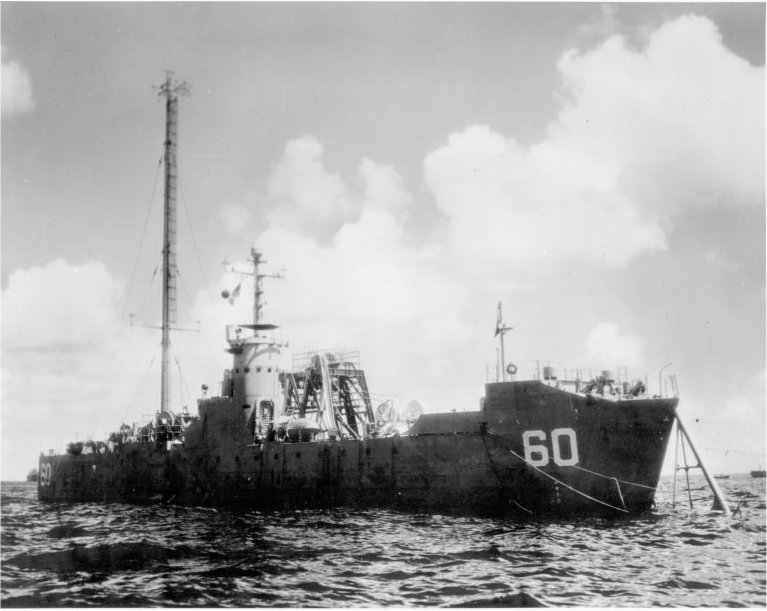 LSM-60 anchored at Bikini Atoll ready for "Operation Crossroads" Test Baker. The caisson slung under her hull has been lowered to a predetermined depth. Test Baker was the underwater shot designed to determine the effects of an underwater atomic bomb explosion upon ships, particularly ship hulls. Use of a surface vessel from which to suspend the bomb made possible a detonation at exactly the predetermined depth and at the exact center of the target array. All errors in positioning the bomb were thus avoided. The antenna used to receive the radio signal which detonated the bomb and the midships hoist used for lowering the bomb caisson are clearly visible in this photo.